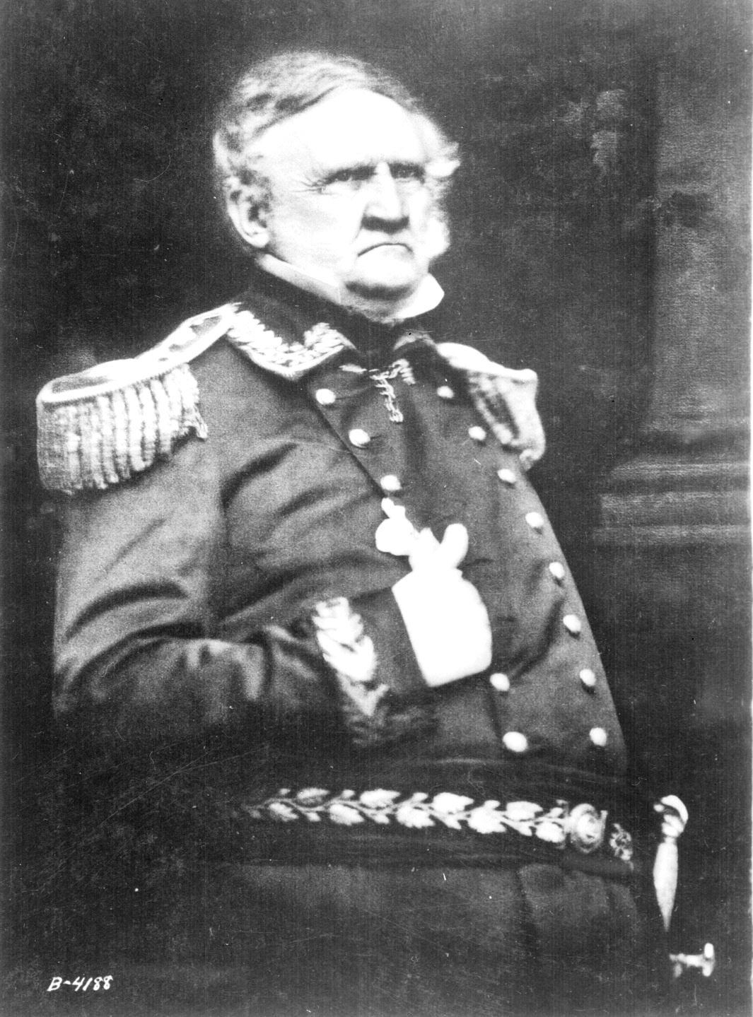 Winfield Scott (1786-1866), American General. 19th century Picture.